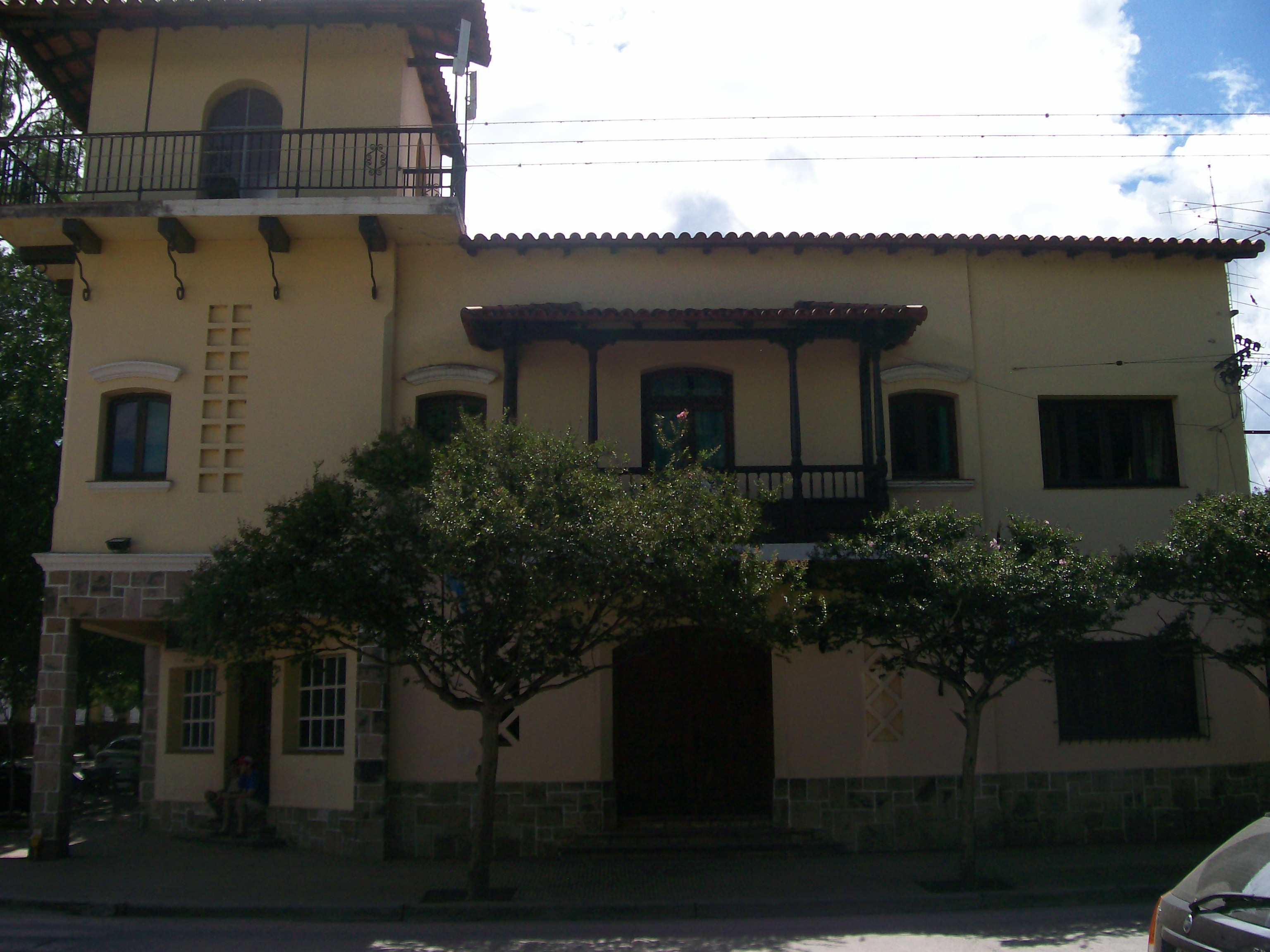 Municipalty of San José de Metán, Salta Province, Argentina.